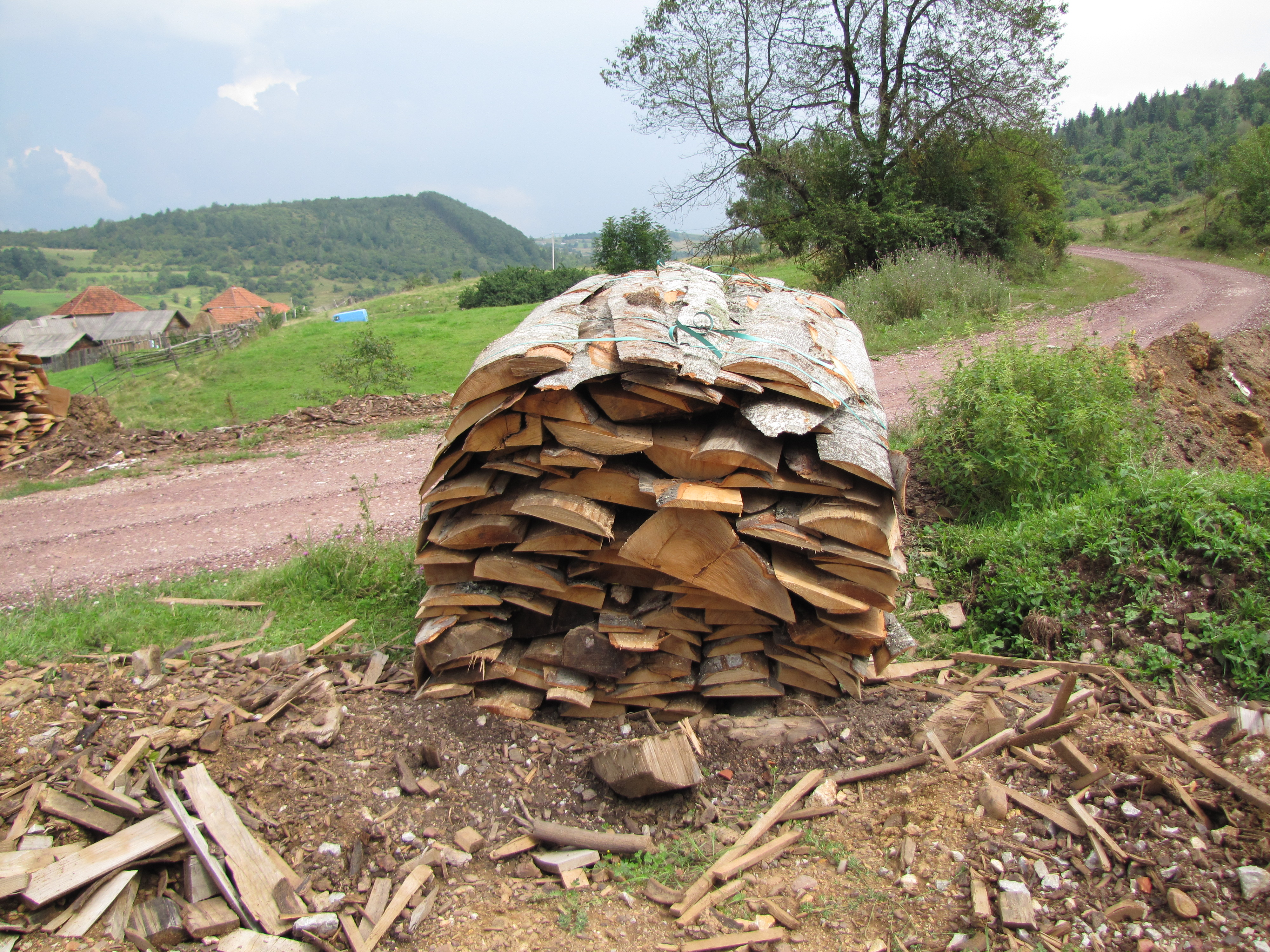 Woodpile in Godovo (Tutin, SW Serbia)